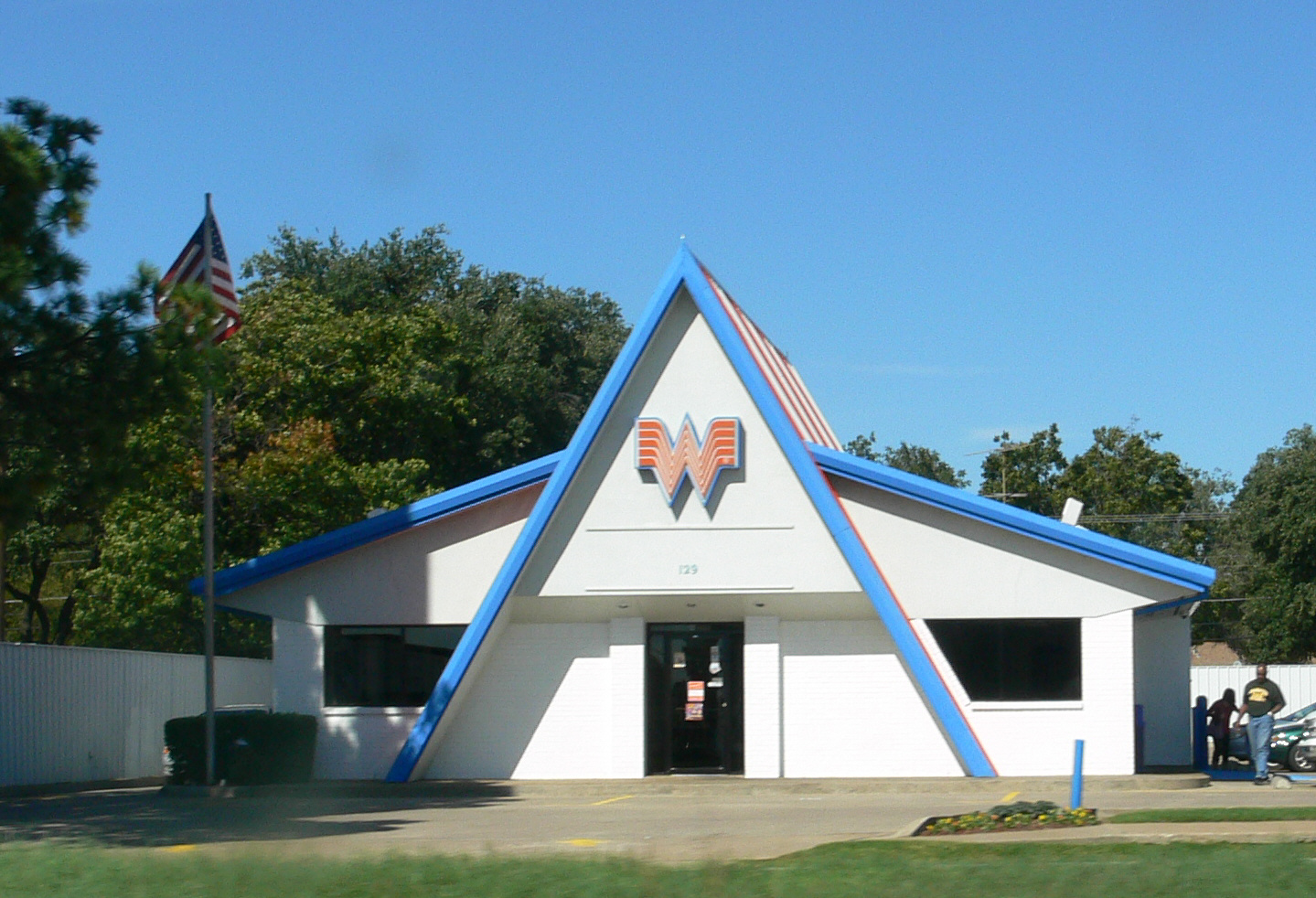 Whataburger Restaurant, Airport Freeway, Irving, Texas